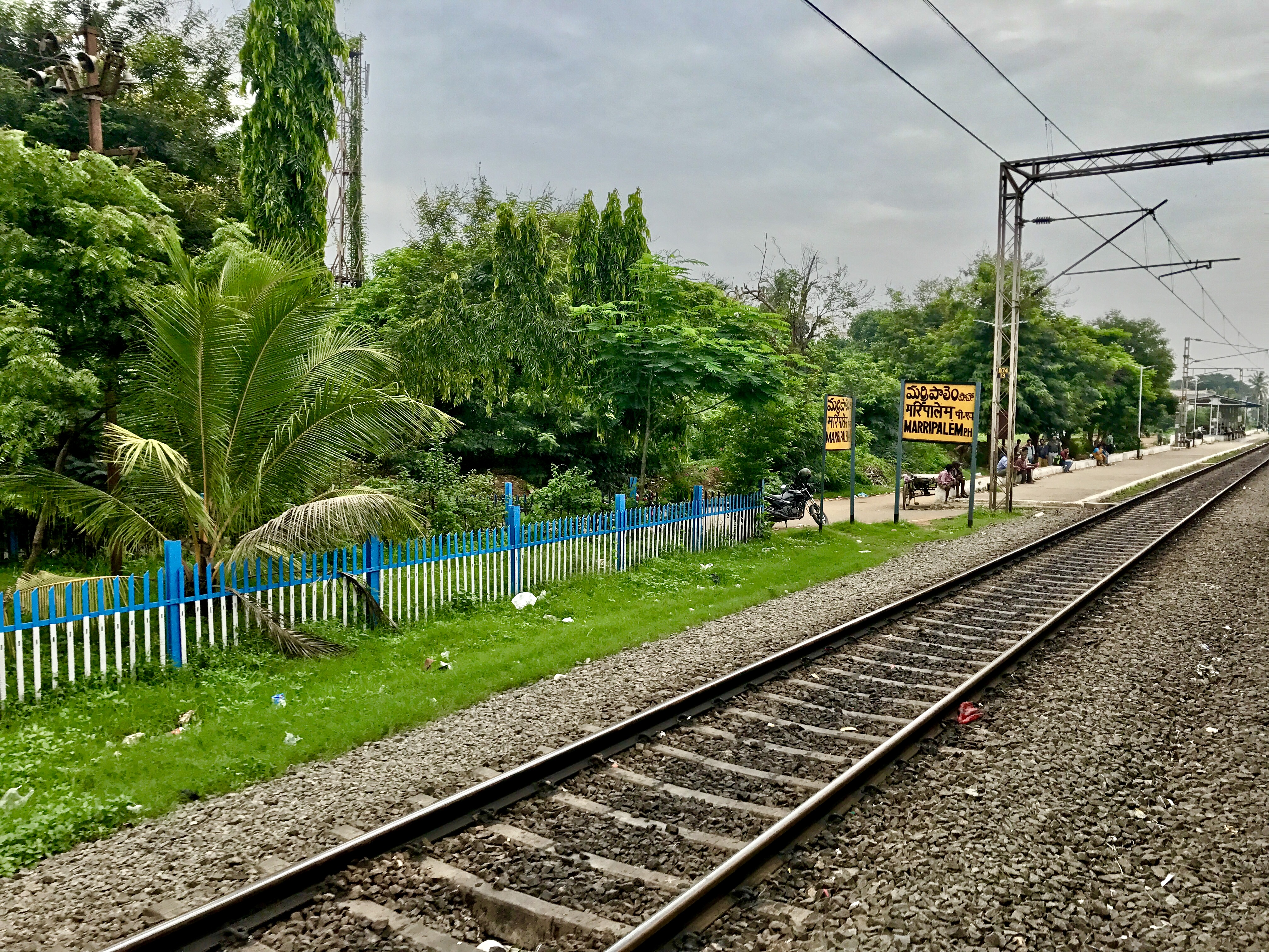 Marripalem railway station board